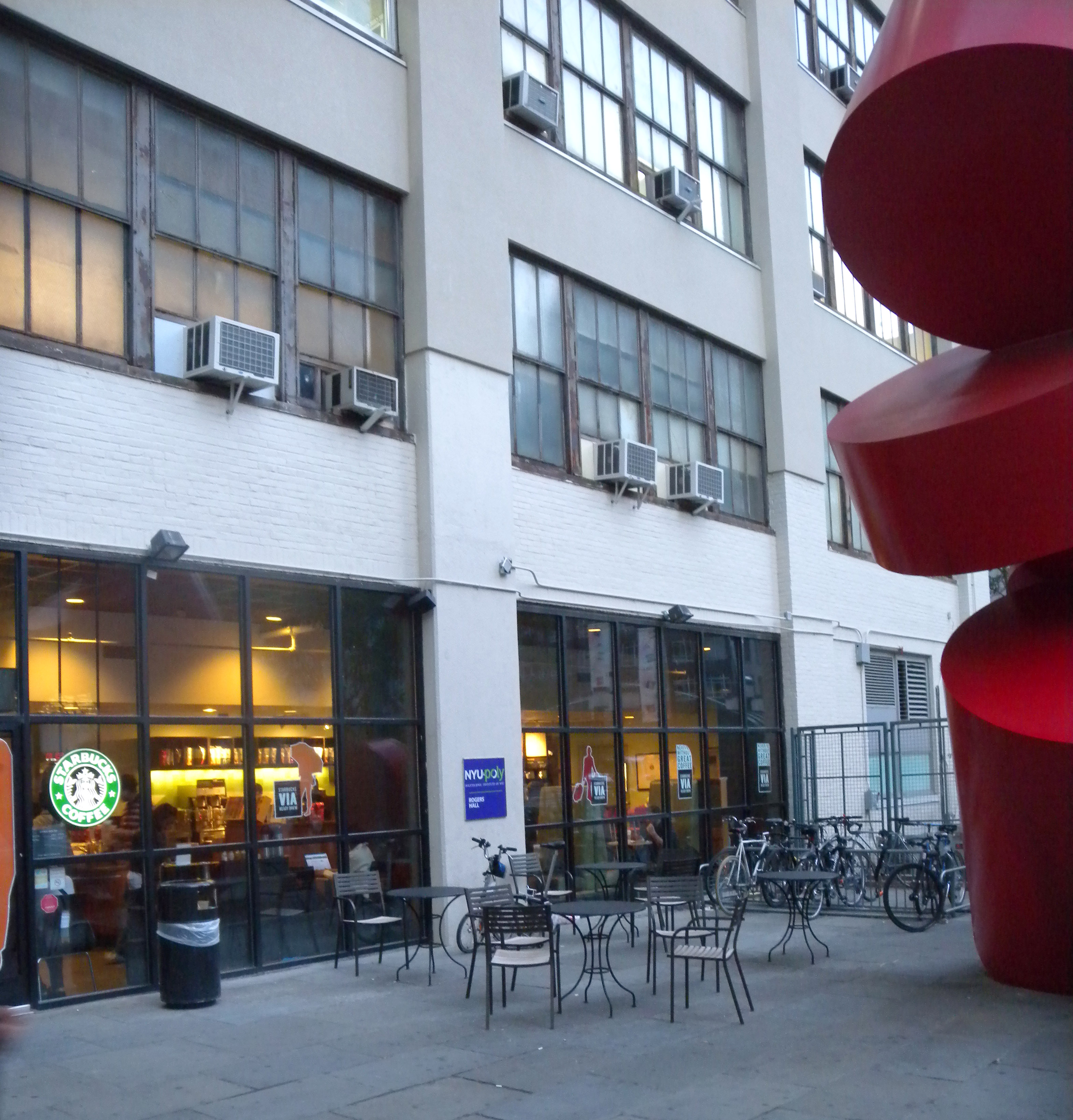 Looking southeast at Rogers Hall of Brooklyn Poly after dusk of a sunny day.